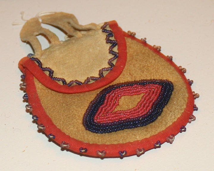 Choctaw beaded pouch (deerhide, glass seed beads), ca. 1900, Oklahoma, collection of Oklahoma History Center, OKC